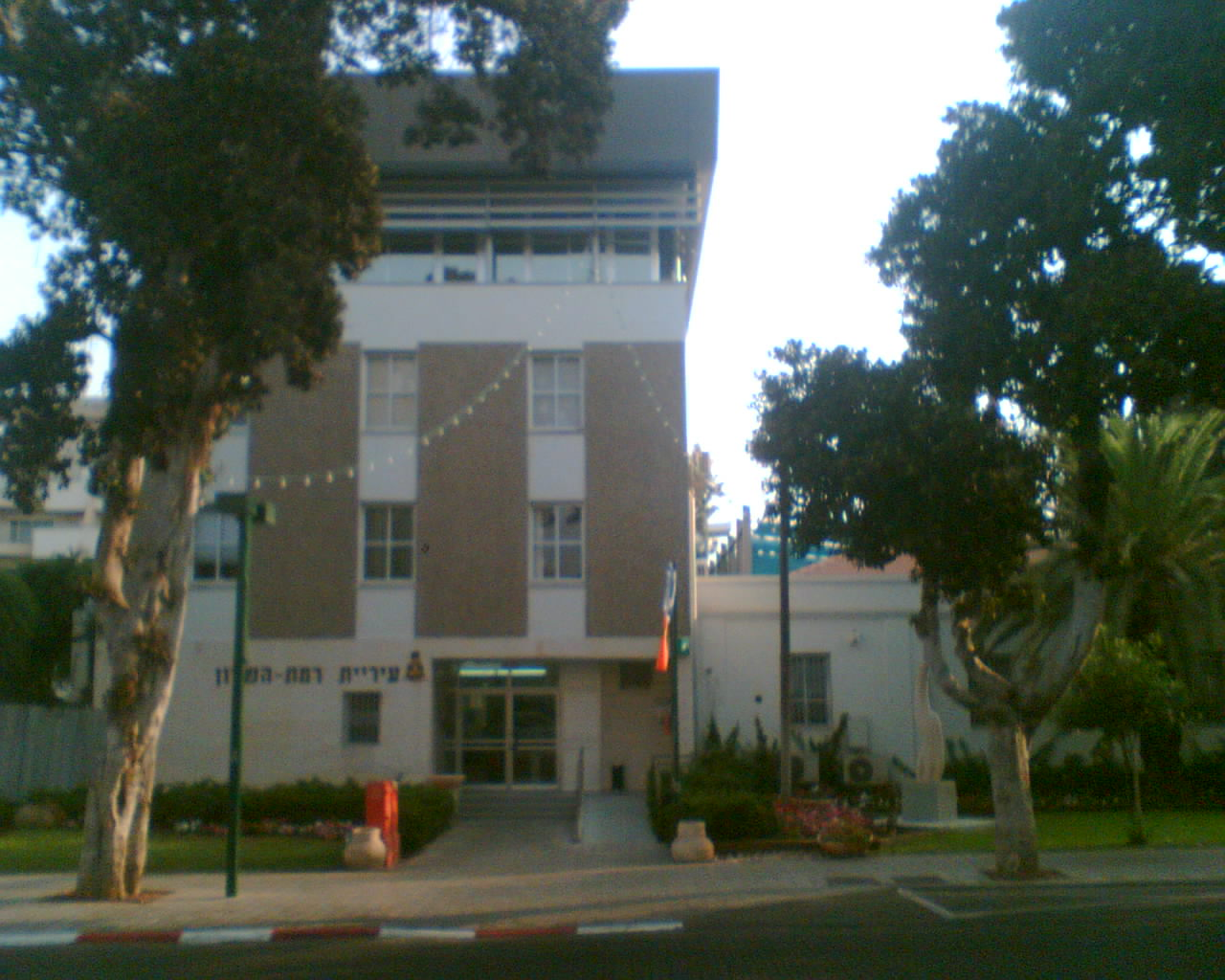 Ramat Hasharon city hall